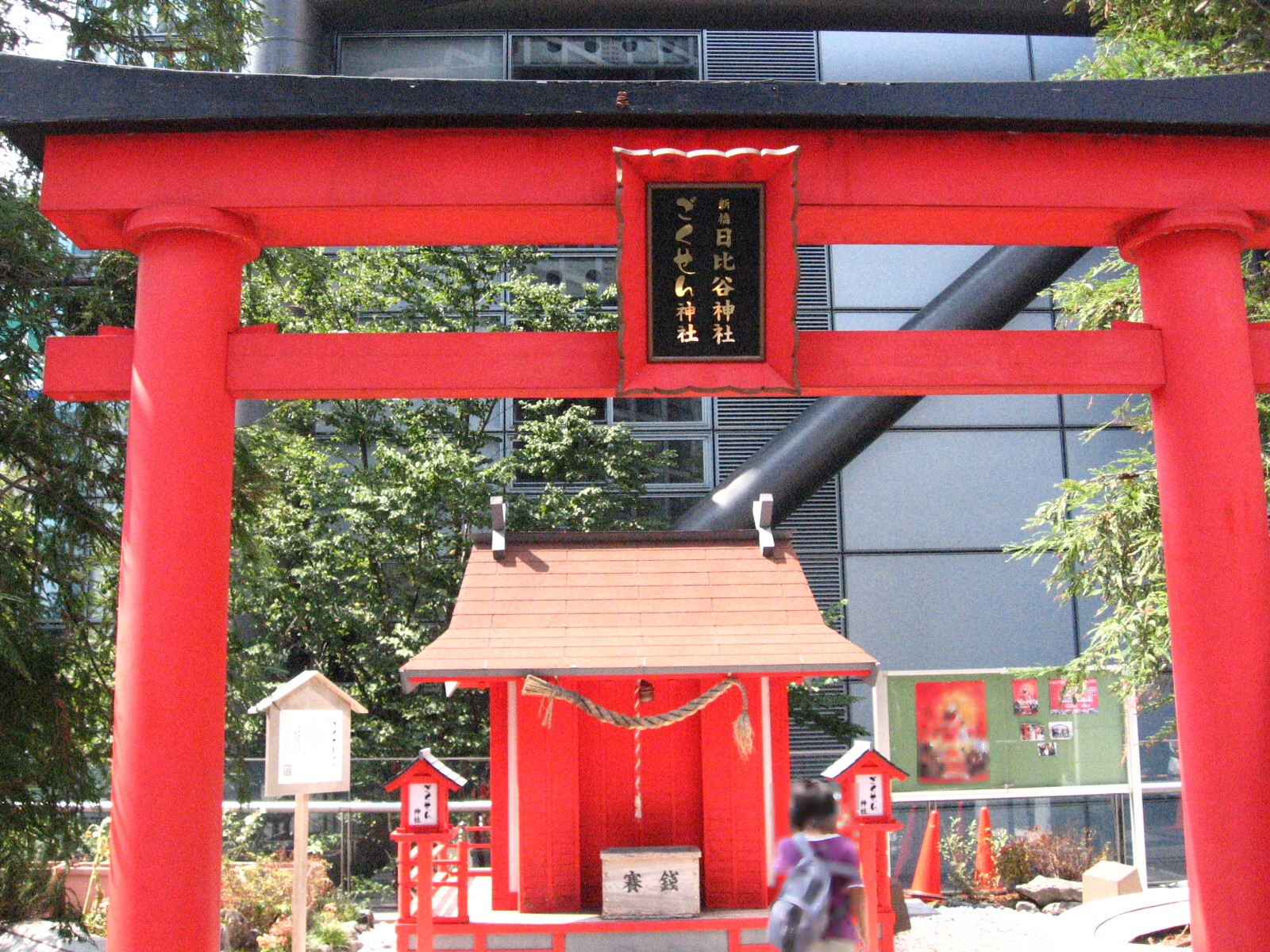 "Gokusen Jinja" from NTV Tower, Shiodome.